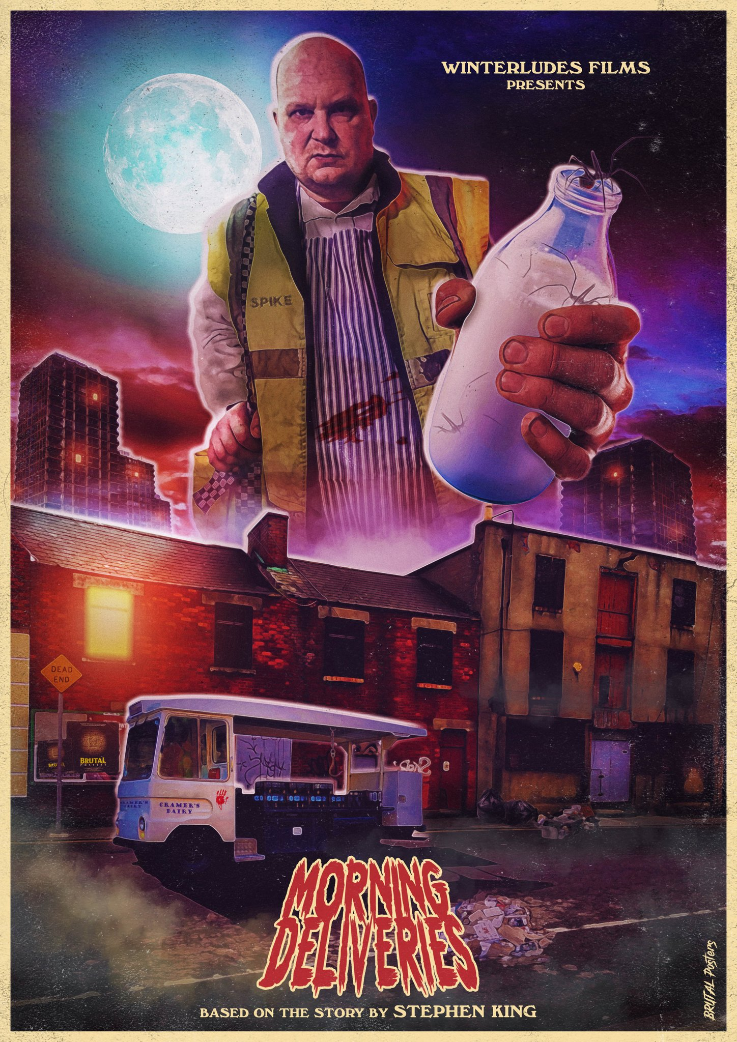 Movie poster for morning deliveries film starring Landon Sweeney